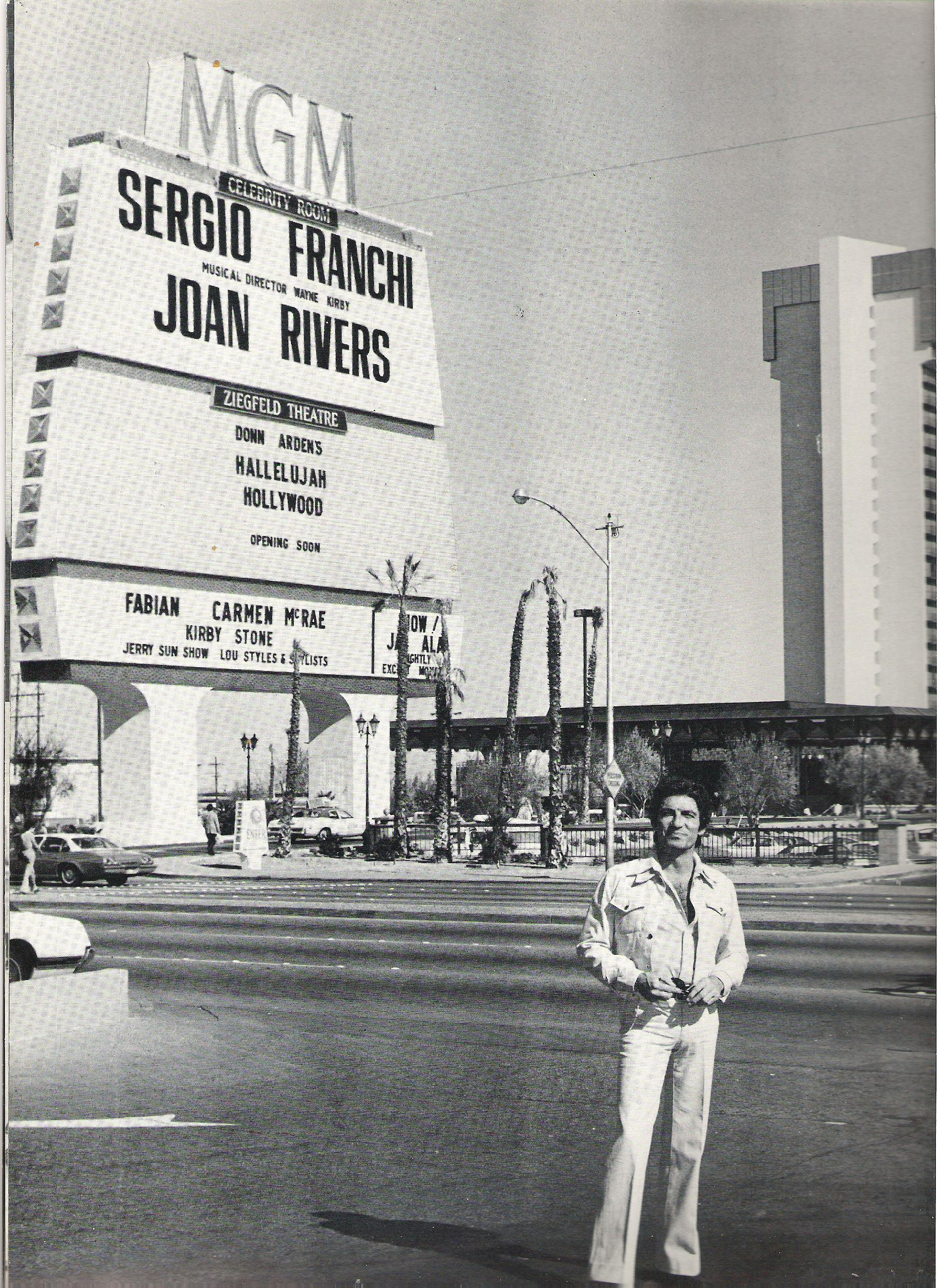 Sergio Franchi at the MGM Grand Hotel in Paradise, Nevada @ 1974